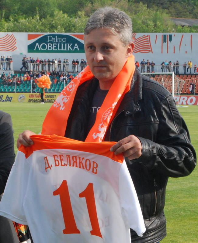 Dimtcho Beliakov